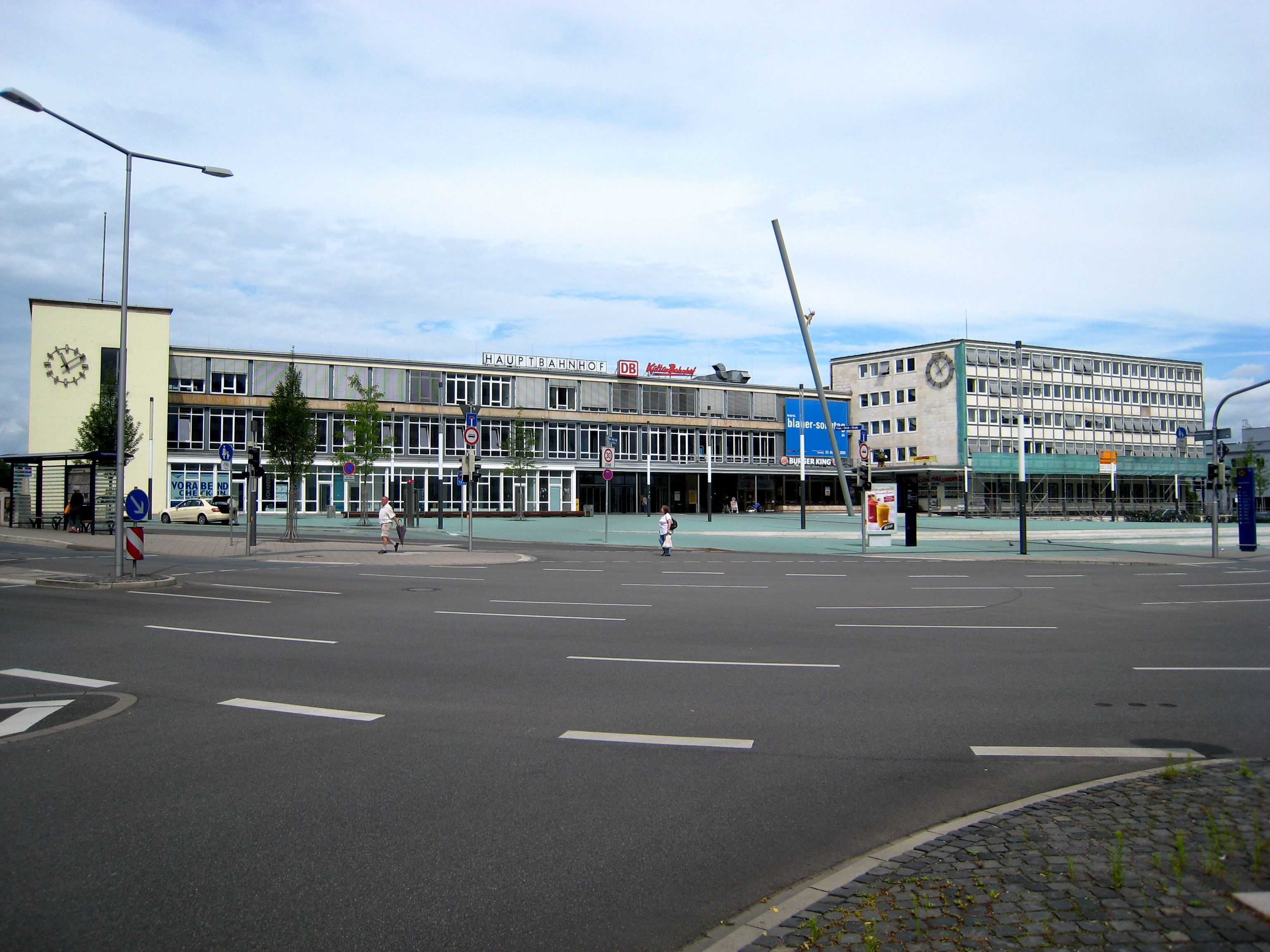 Kassel main station now serving as a regional train station and "Kulturbahnhof" with a cinema, the Offener Kanal Kassel (community television) and the Caricatura gallery & bar. The "Himmelsstürmer" sculture can be seen in front of the main entrance